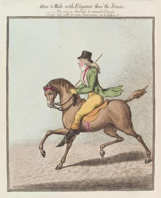 How to Ride with Elegance thro' the Streets, copper engraving of General Montague James Mathew (1773–1819), published by Hannah Humphrey on 8 April, 1800.